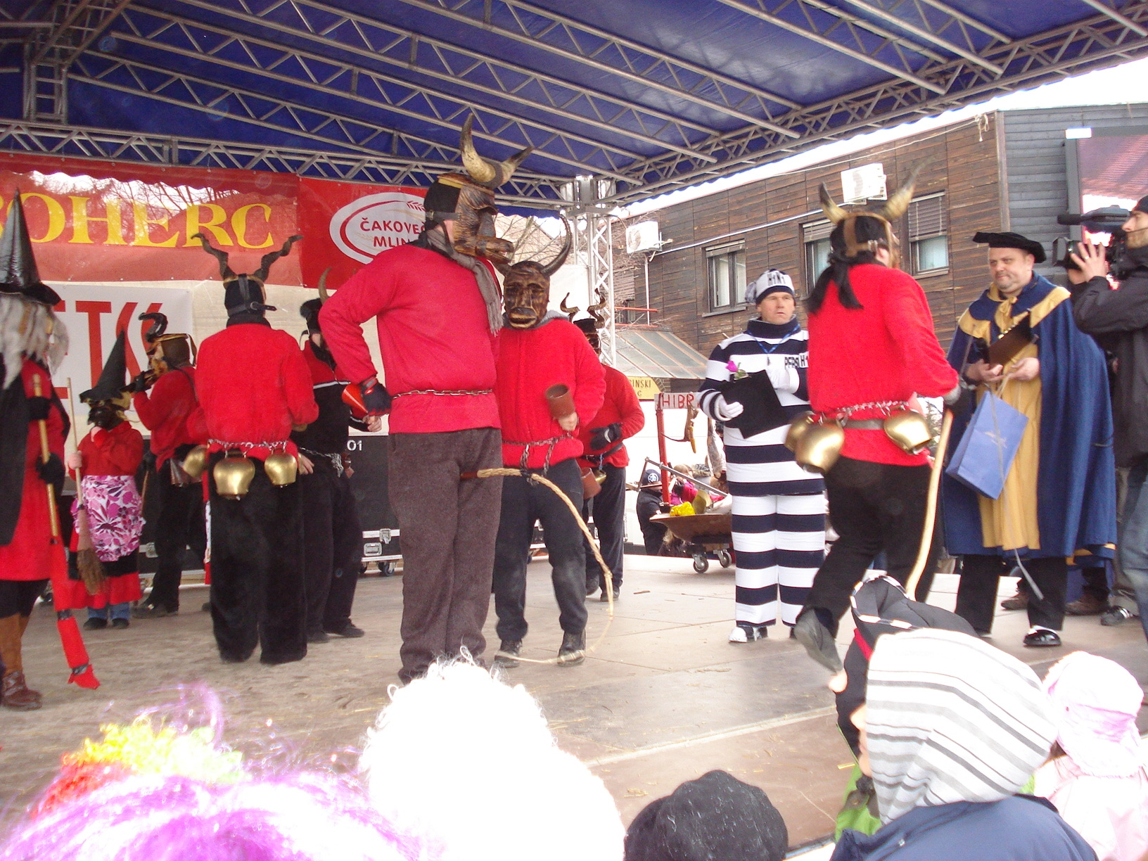 Medjimurje Carnival 2011 (Croatia) - Masquers of Kvitrovec village